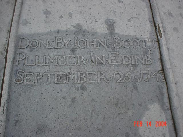 Original builder's stamp in the lead roof of Dalkeith Palace.